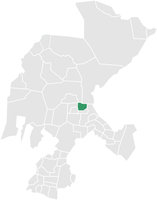 Map of the Municipality of Pánuco in Zacatecas, México.